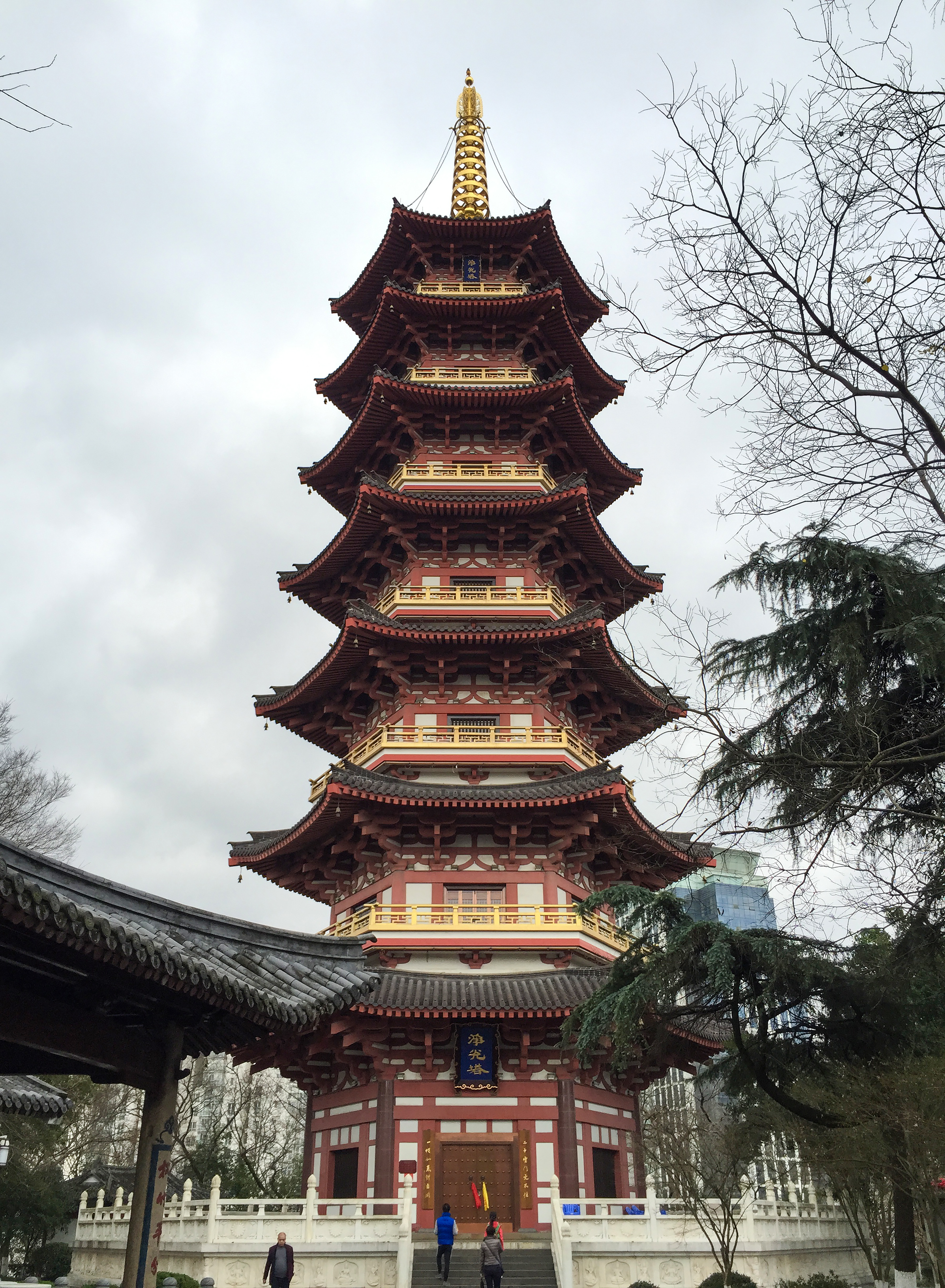 The pagoda for Sujue... rebuilt in early 2000's.